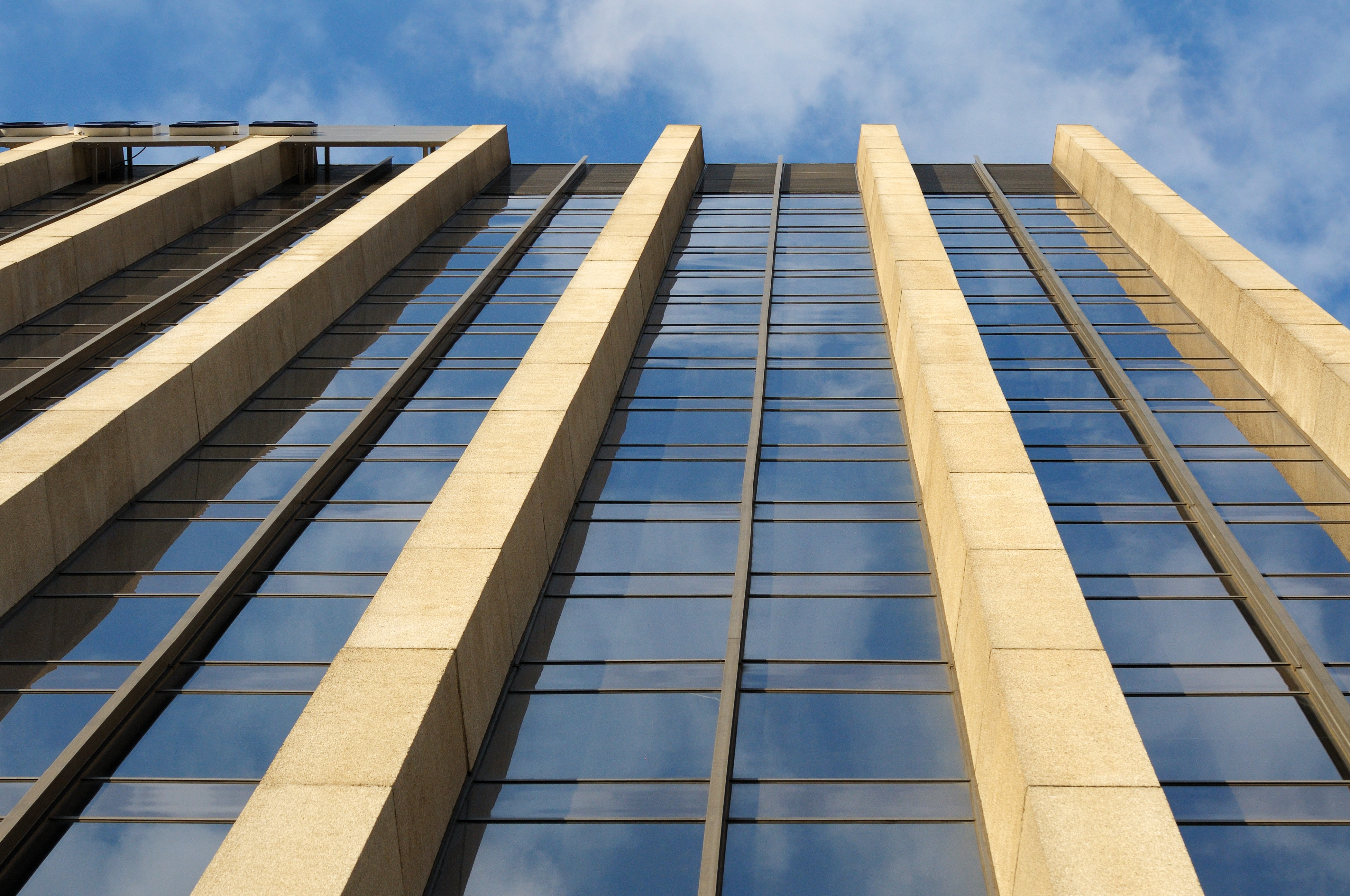 Daniel Building (1970) on Southside, headquarters of BBVA Compass.